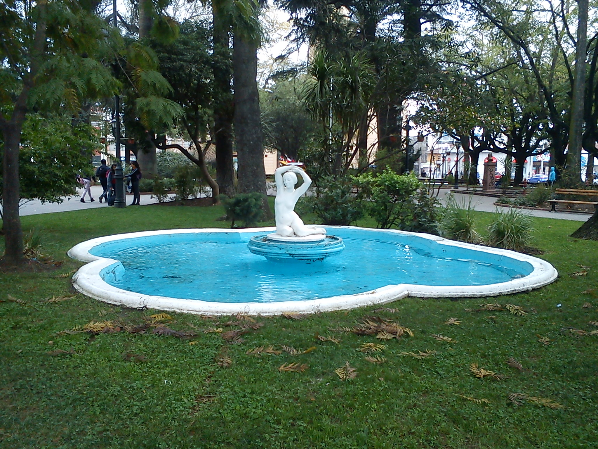 This is a photo of a national monument in Chile: 142